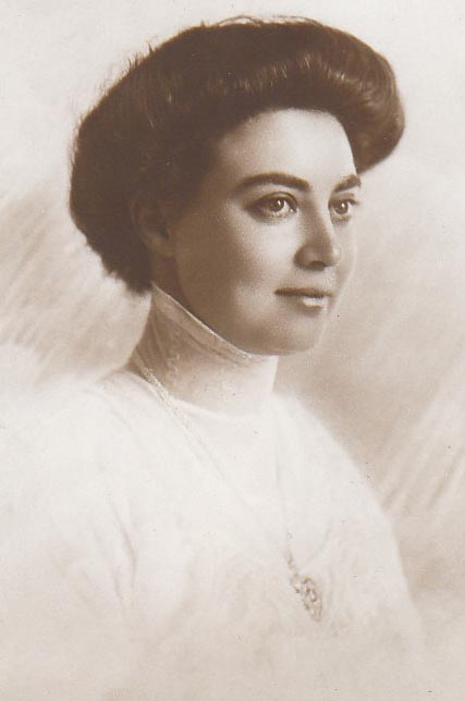 Princess Olga of Hanover